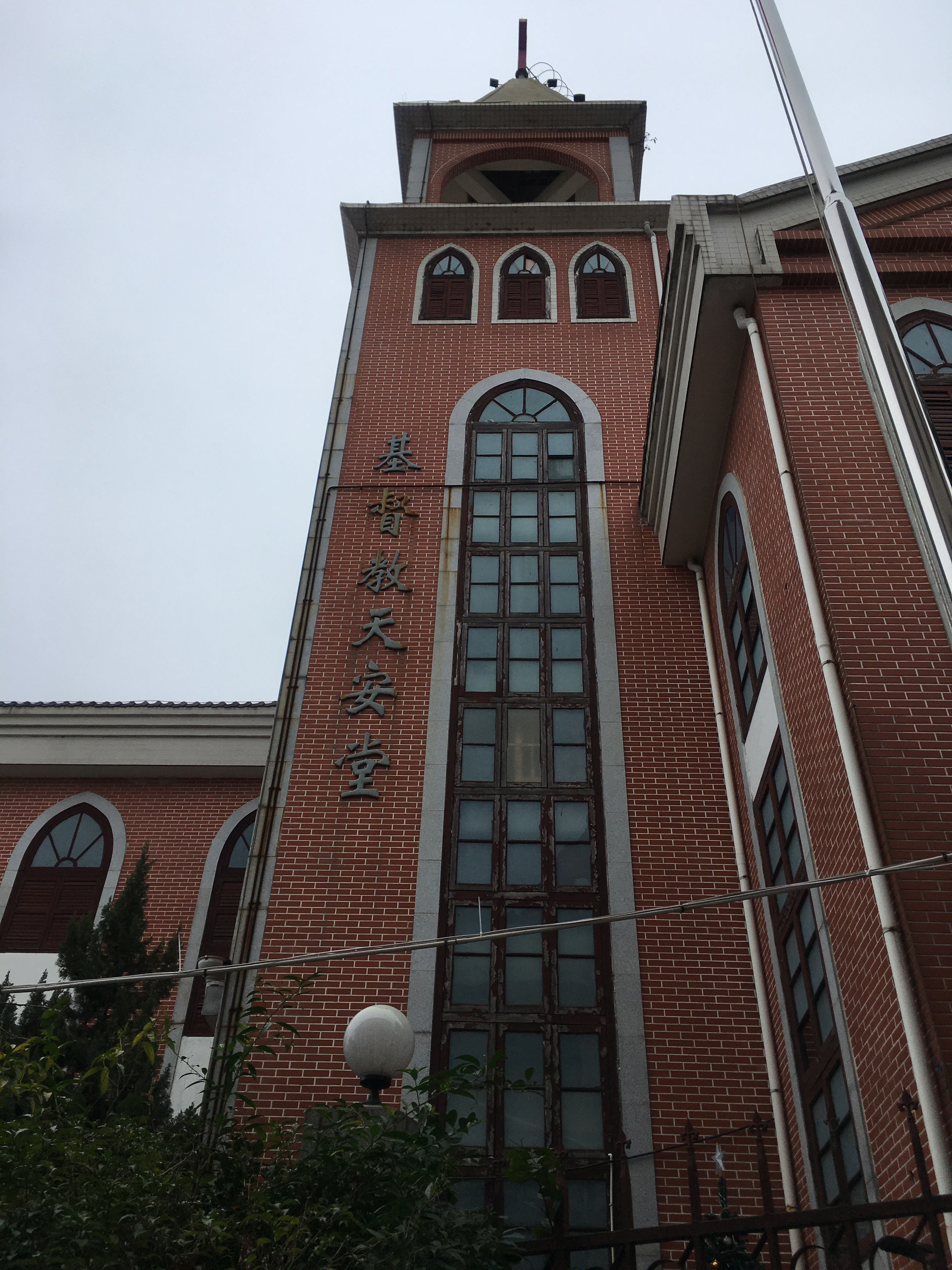 Church of Heavenly Peace (Tien Ang Tong), located at Tian'anli, Cangshan District, Fuzhou City, Fujian Province, China